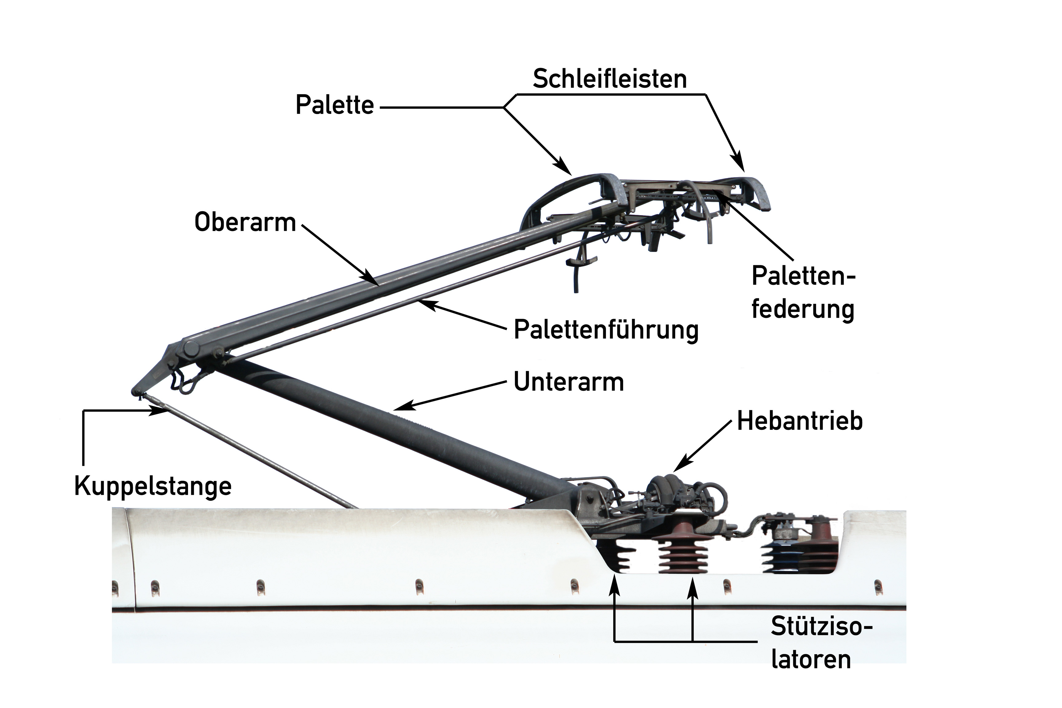 Overview on key components of a railway pantograph (here: ICE 3 high-speed train). Descriptions in German.